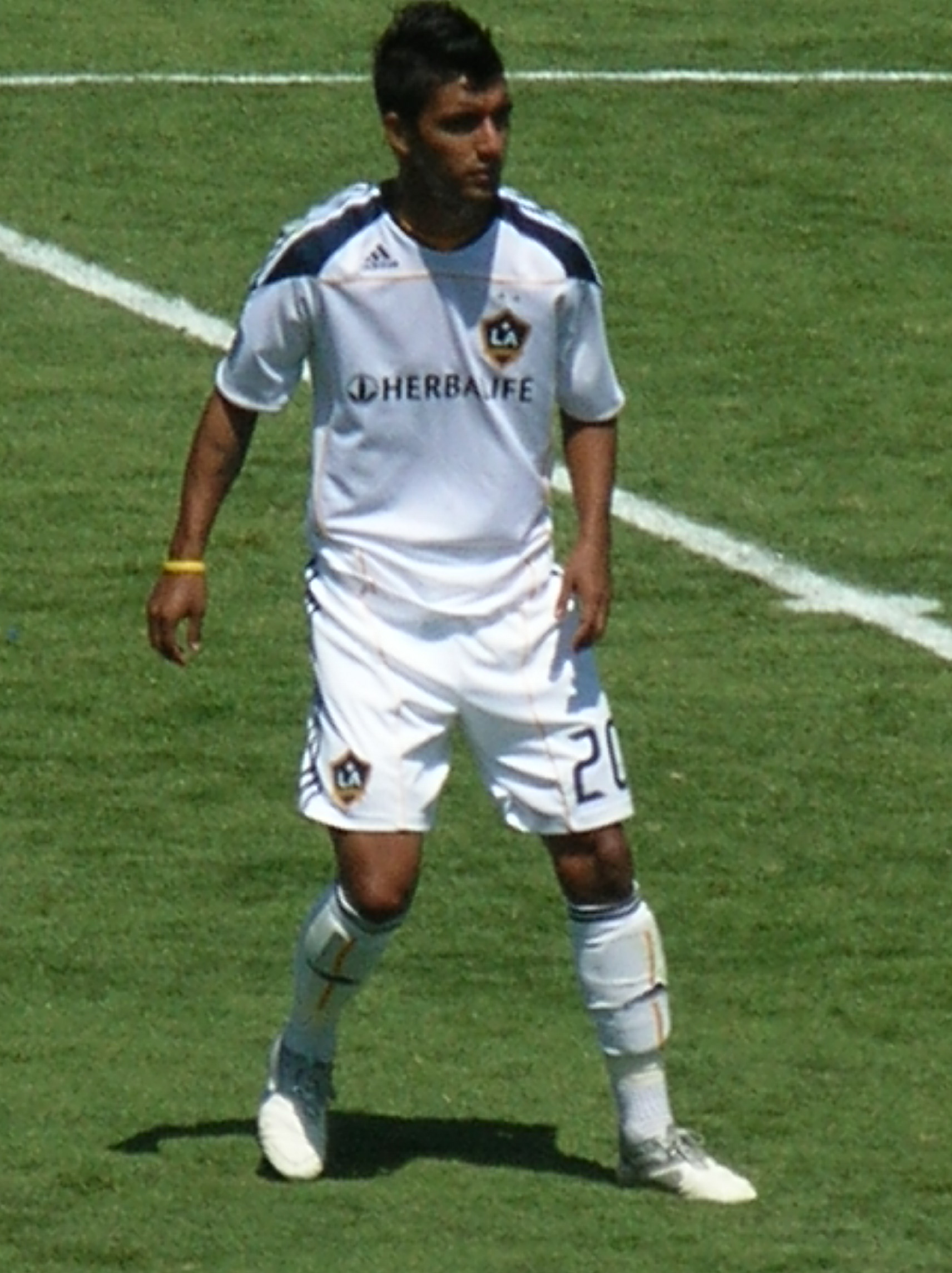 LA Galaxy defender A. J. DeLaGarza at an away game against the San Jose Earthquakes. The Earthquakes won 1-0.